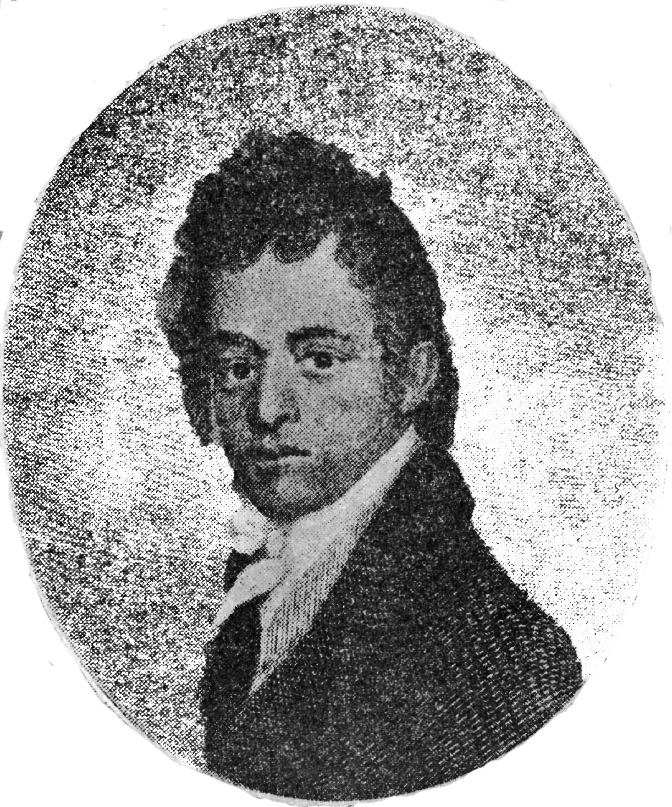 Tile on original is "GEORGE PRINCE TAMOREE Son and heir of King Kaumualii of Kauai"